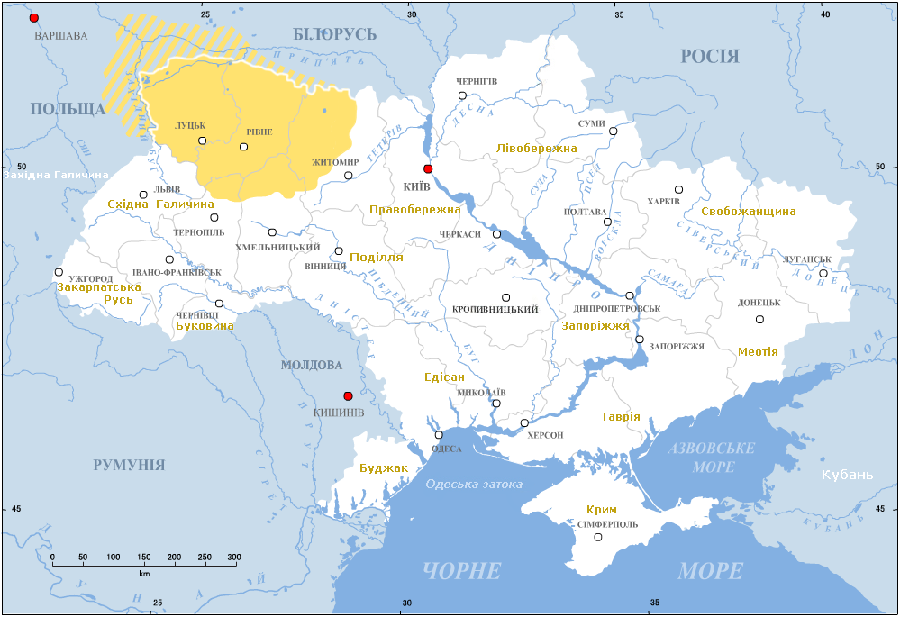 Volhynia (yellow)